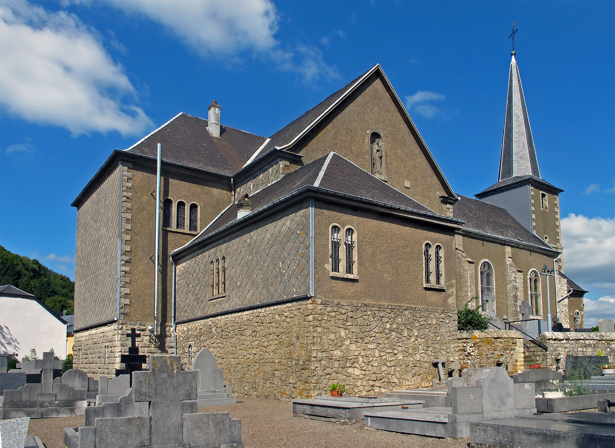 Church of Soleuvre, Luxembourg